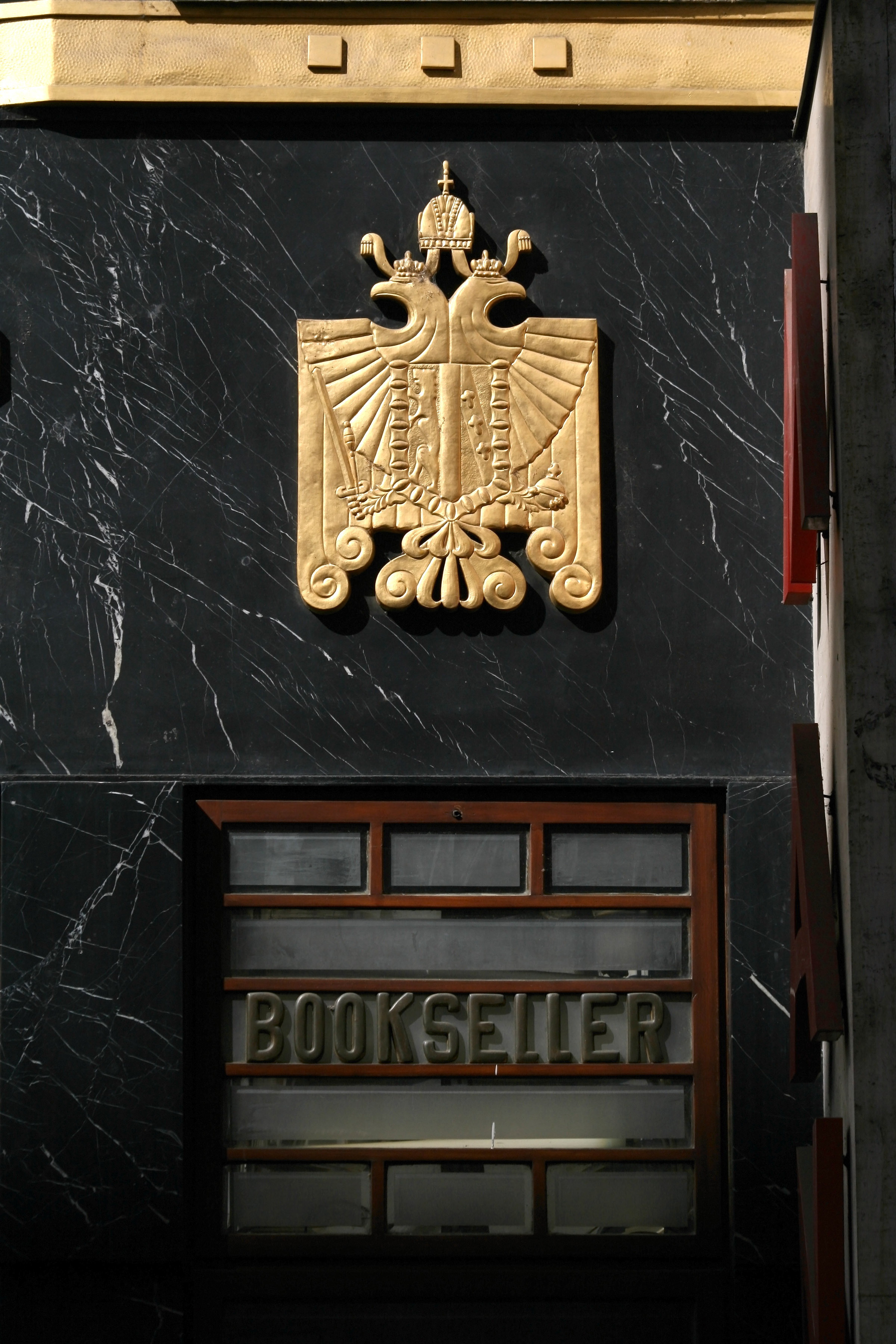 Adolf Loos' portal of the Manz'sche Verlags- und Universitätsbuchhandlung in Vienna, Austria.